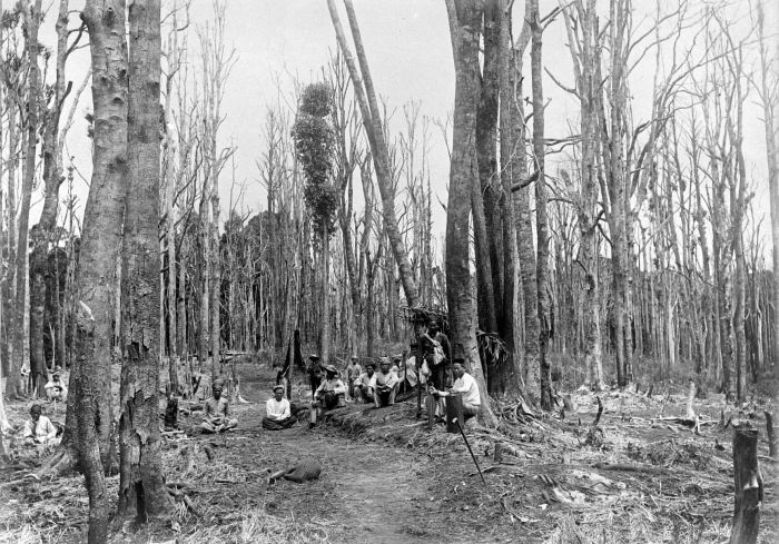 Repronegatief. While in 1900 in Java as well as all agricultural land were permanently cultivated land, there was much in Sumatra called place shifting cultivation. It is also still the case. One area that has changed in that system, called a Ladang. At the end of the dry season it clipped a piece of wood in all the little wood, where large trees were mostly spared. The felling of large trees would be much more labor costs while also could do service as shade trees. The felled timber was then fired, after which often in the hot ashes sowed or planted, whether or not after having made holes with a dibble. After two years at the Ladang are no longer planted annual crops. (P. Orchard, 2001). Rijstladang harvested in Banandolok, in allowing the trees standing, many of whom store again soon, Tapanoeli